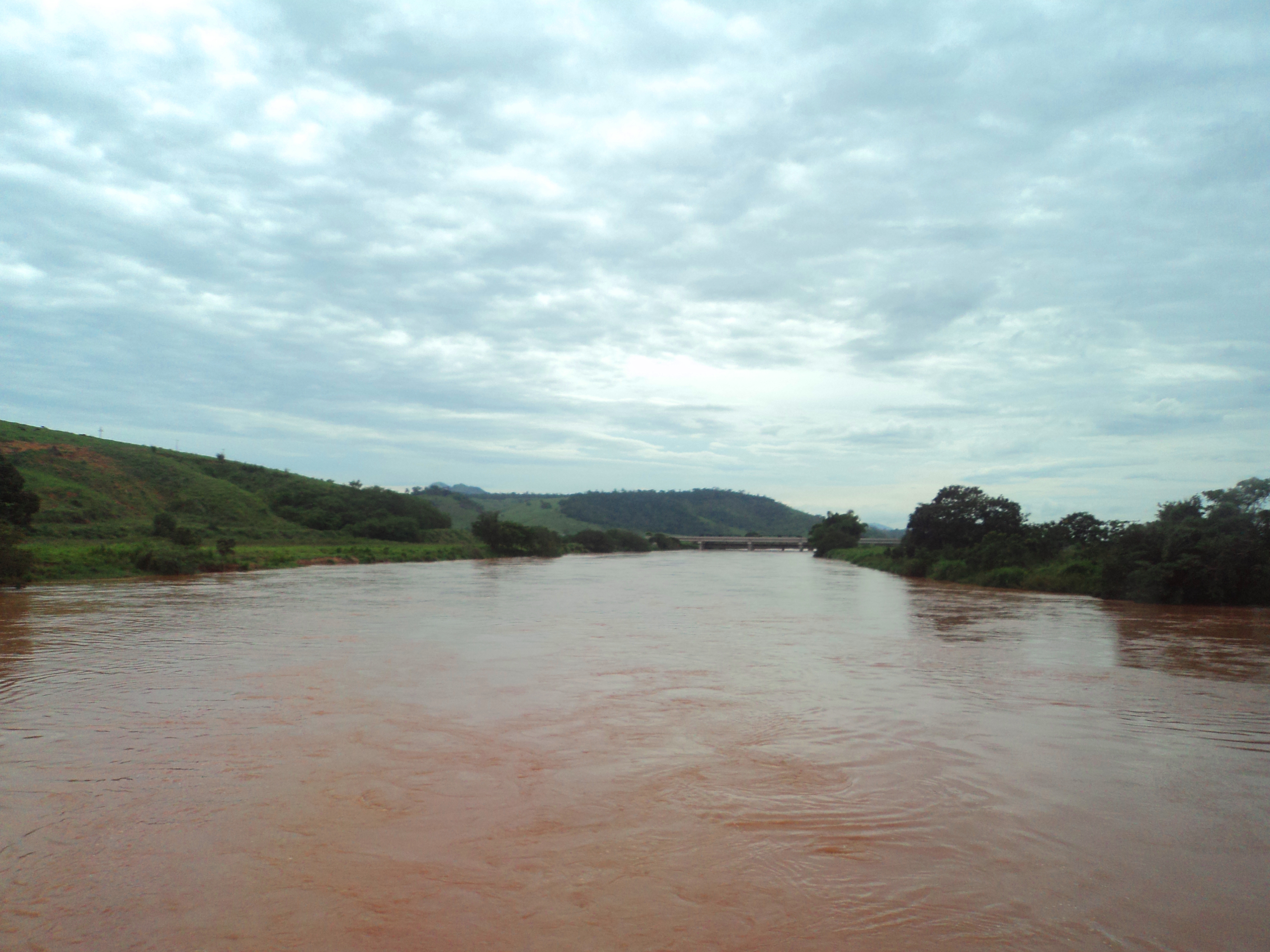 The Manhuaçu River in Aimorés, Minas Gerais, Brazil.